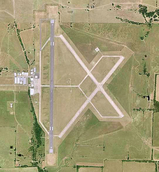 USGS digital orthophoto of Cox Field, an airport in Texas, United States